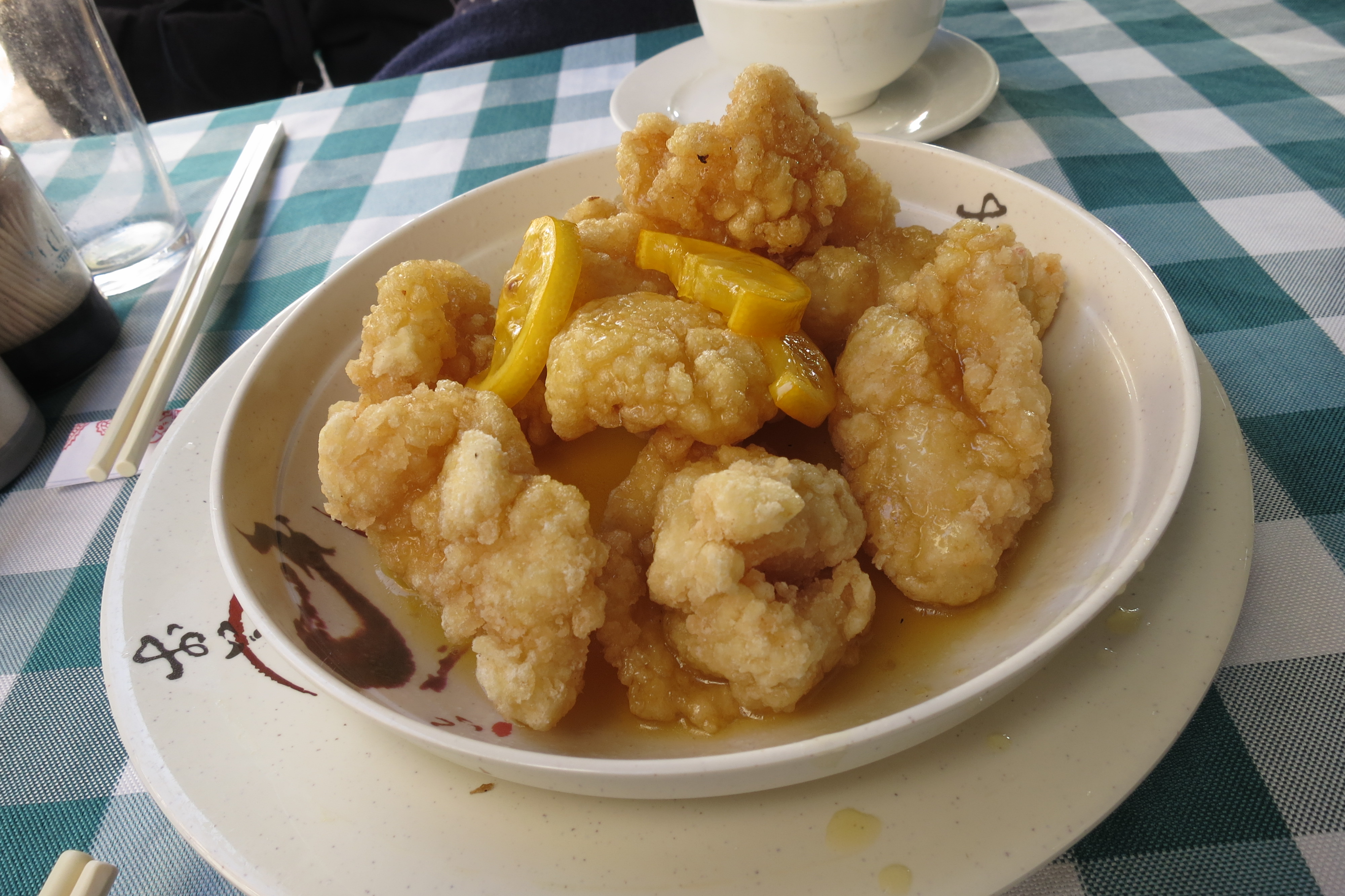 Lemon Chicken in Hong Kong